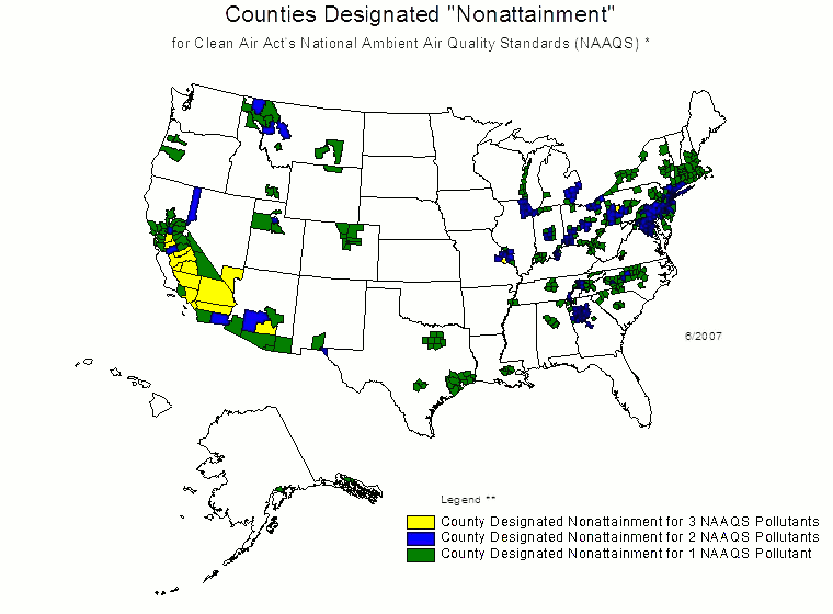 Legend from original image: Guam - Piti and Tanguisson Counties sic, see definition are designated nonattainment for the SO2 NAAQS. Puerto Rico - Municipality of Guaynamo [sic] is designated nonattainment for the PM 10 NAAQS. * The National Ambient Air Quality Standards are health standards for lead, carbon monoxide, sulfur dioxide, ground-level 8-hour ozone, and particular matter (PM-10 and PM-2.5). There are no nitrogen dioxide nonattainment areas. ** Partial counties, those with part of the county designated nonattainment and part attainment, are shown as full counties on the map. Source: United States Environmental Protection Agency URL